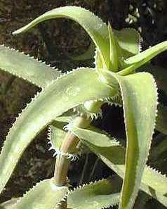 Aloe ciliaris, with distinctive soft white thorns around its stem.